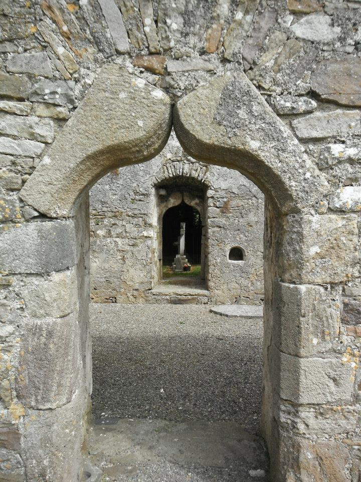 Kilfane Church, 13th Century Door Thomastown, Co. Kilkenny